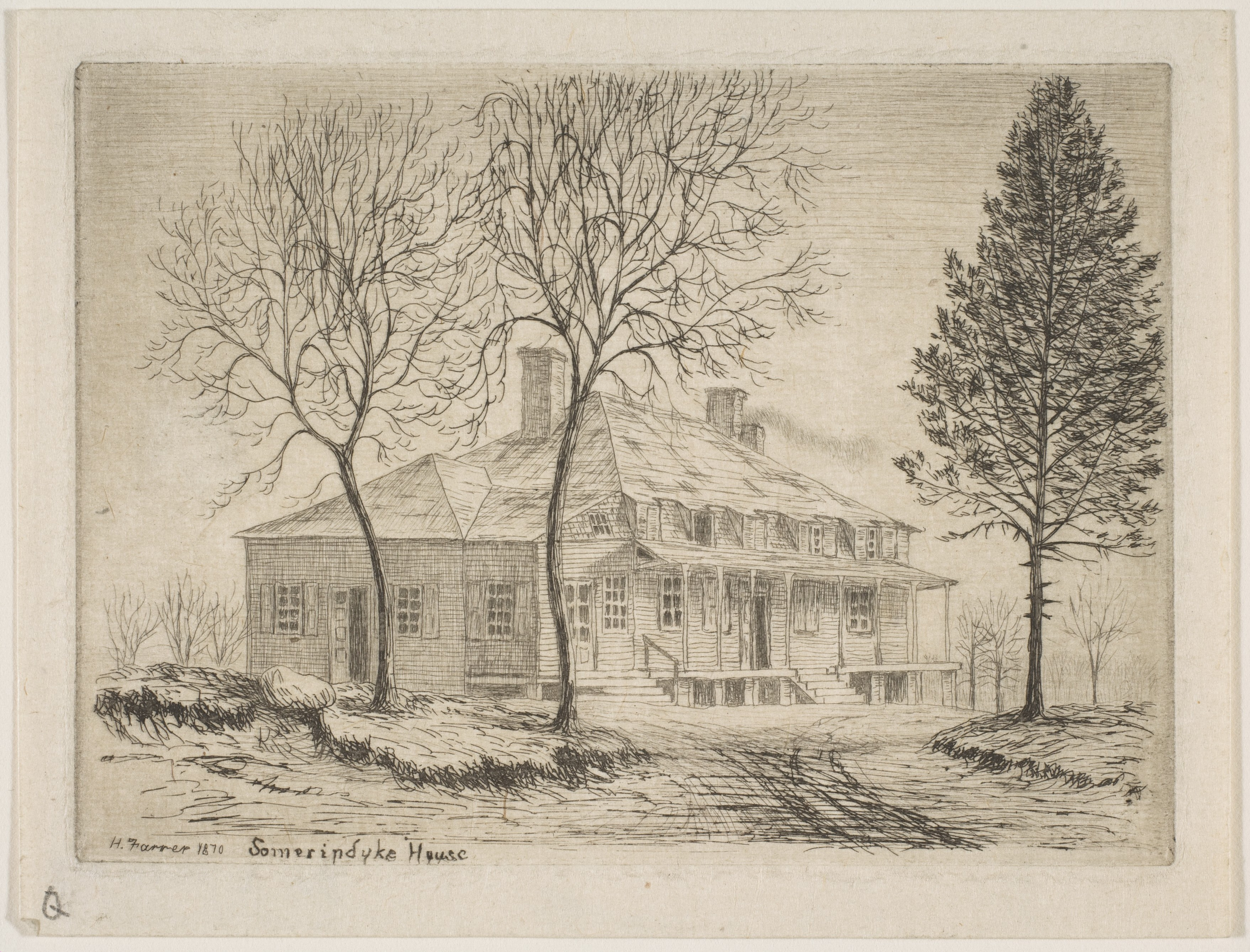 Print; Prints